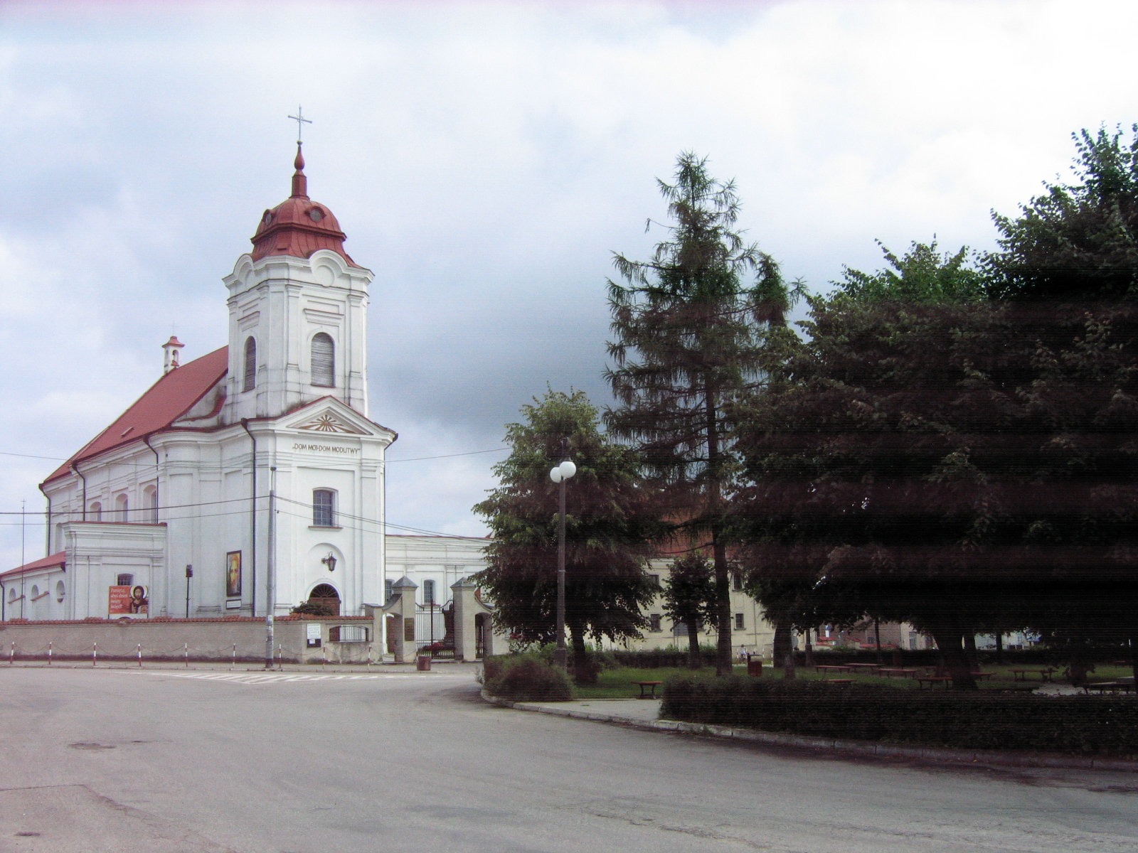 Church st.Jan Chrzciciel and st.Szczepan